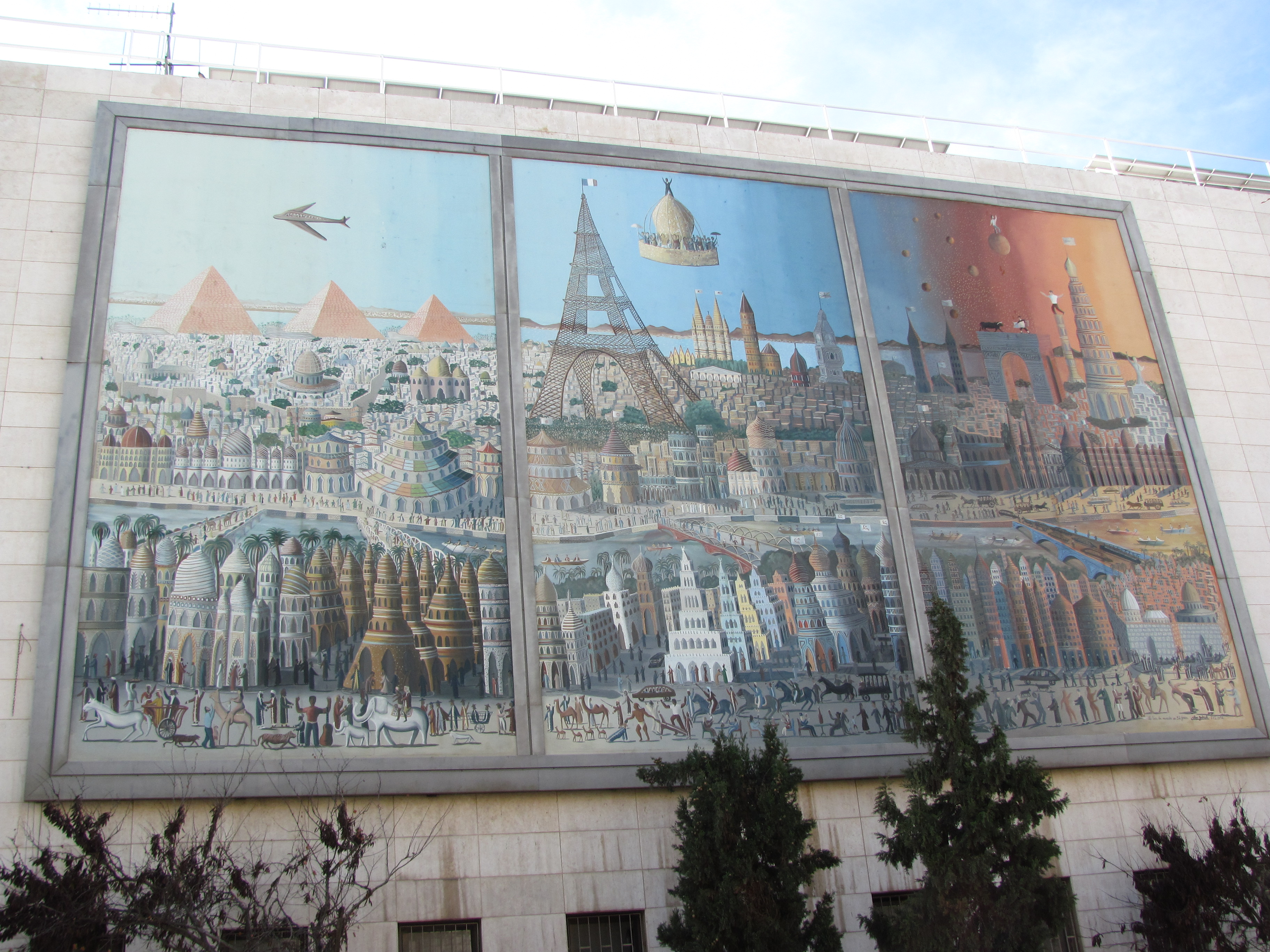 Gabriel Cohen mural on the side of the Gerard Behar Center, Jerusalem, Israel.